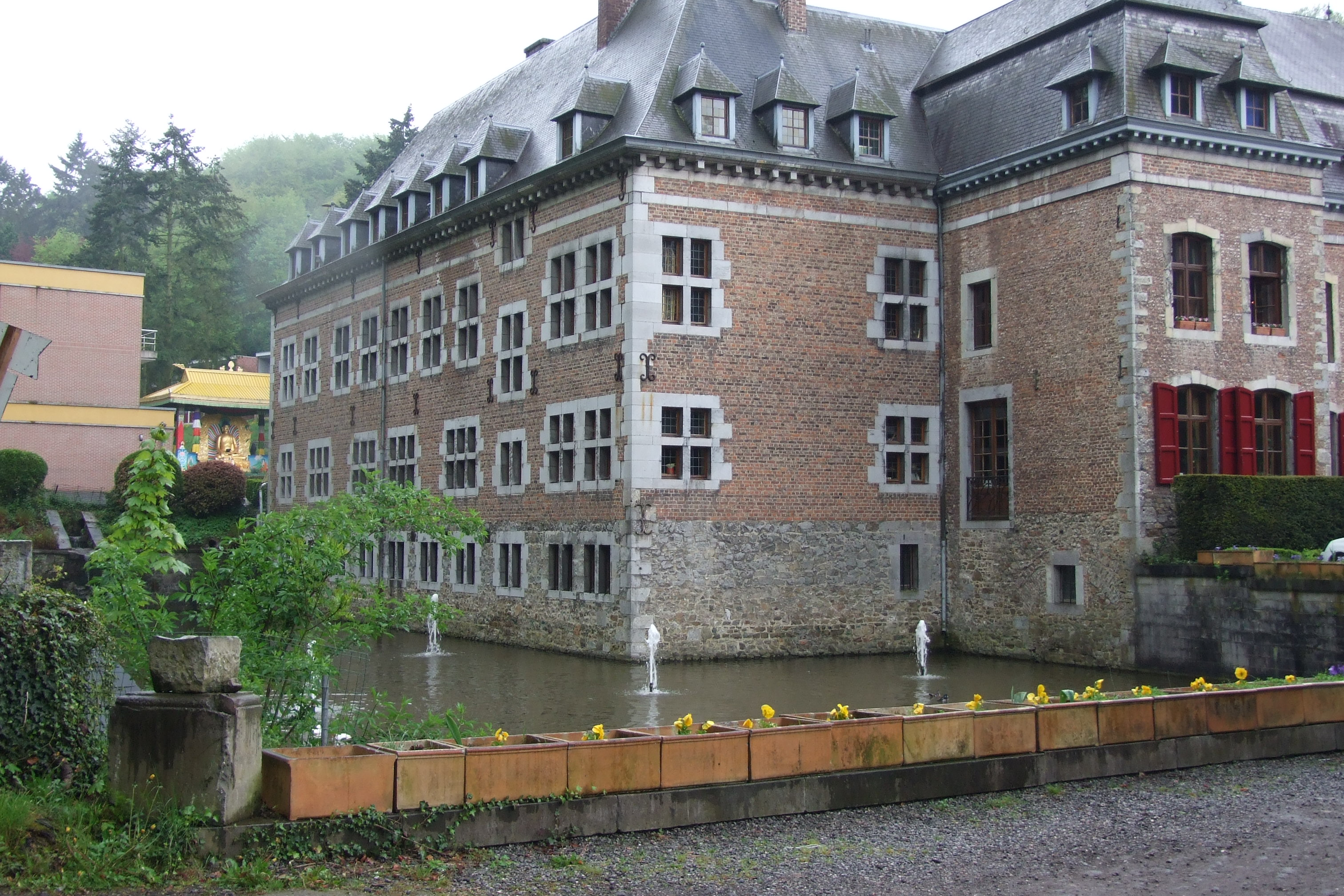 Tibetan Institute Yeunten Ling, Huy, Belgium